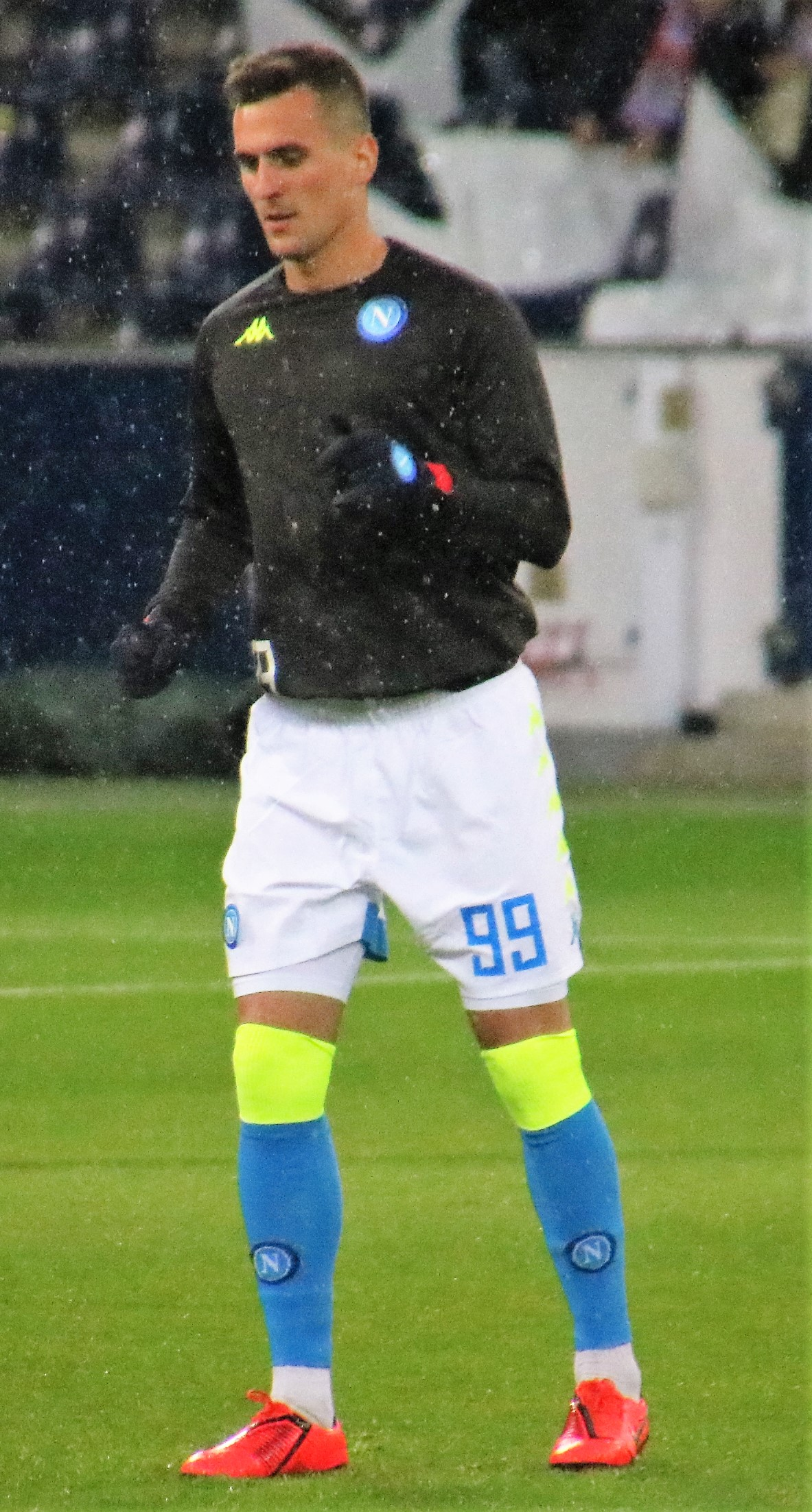 Euroleague round of 16 2nd leg